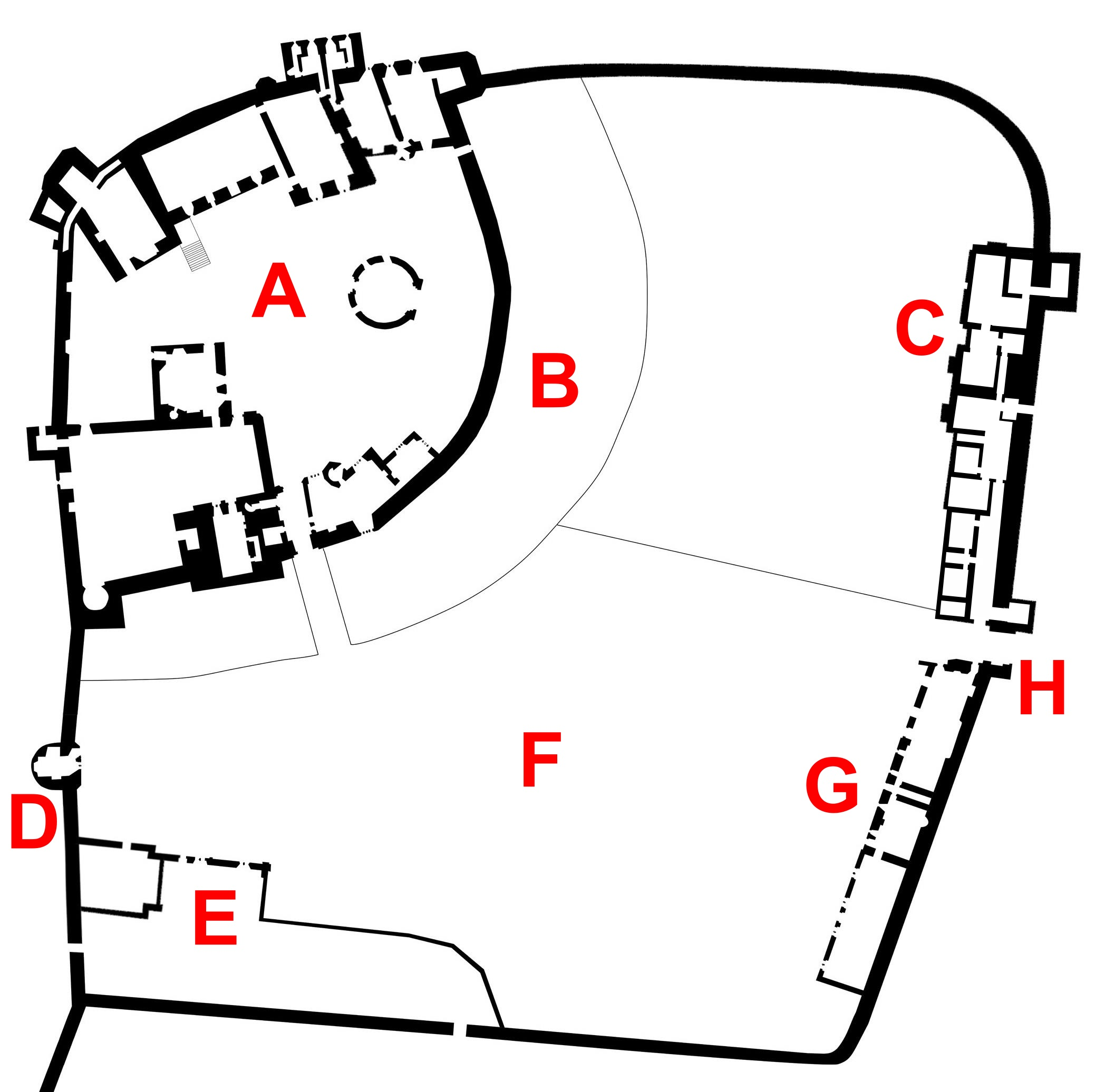 Map of Ludlow Castle, after W. H. St John Hope (1854 - 1919) and Harold Brakspear (1870 – 1934)'s work in 'The Castle of Ludlow' Archaeologia Vol. 61, 1909